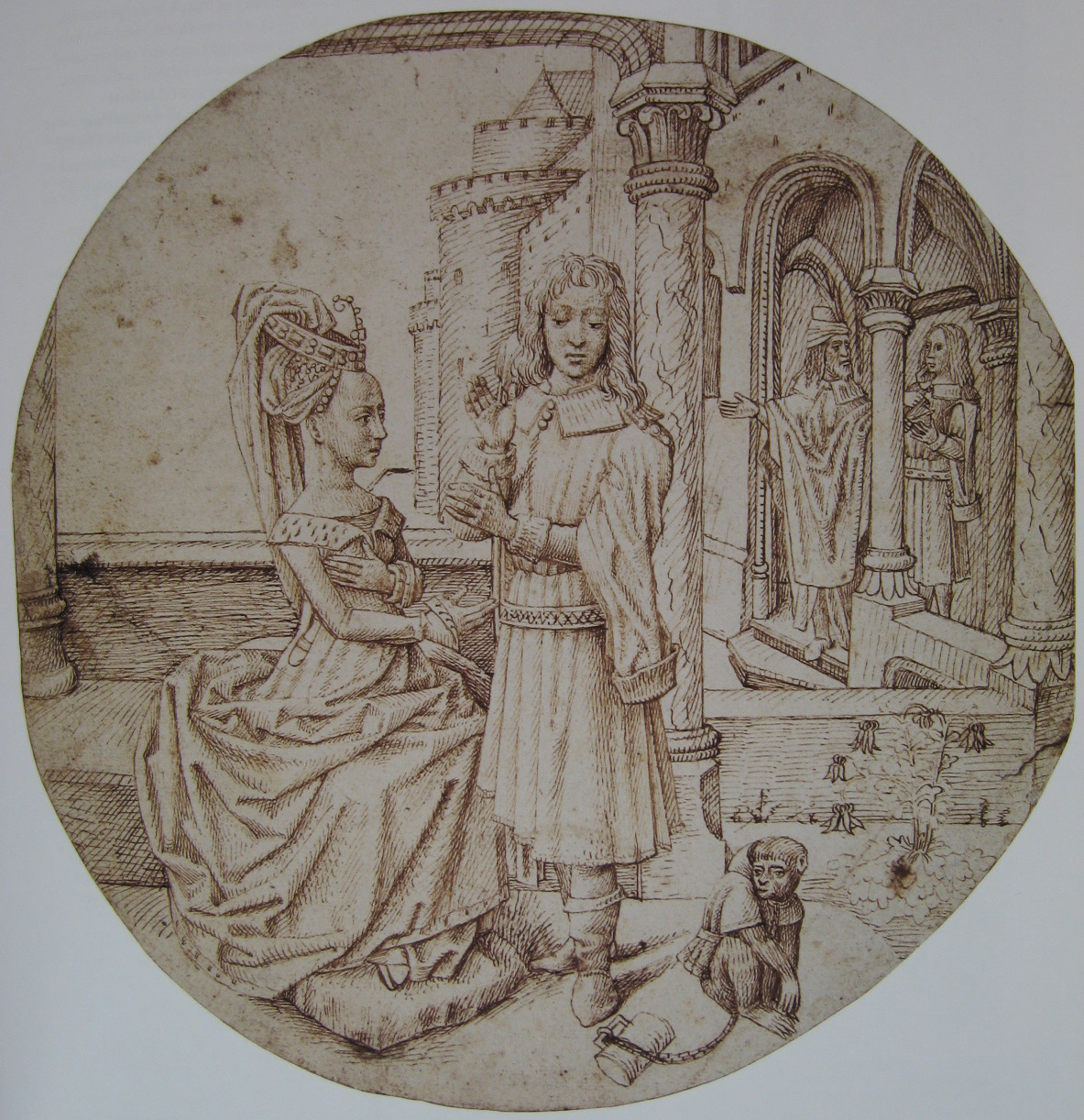 "Joseph and Asenath" Pen and yellowish-brown and dark brown ink, softly outlined in pen, remains of black stylus preliminary drawing (chalk?) on paper, max. diameter 214 mm. Oxford, Ashmolean Museum, Inv.1863.142